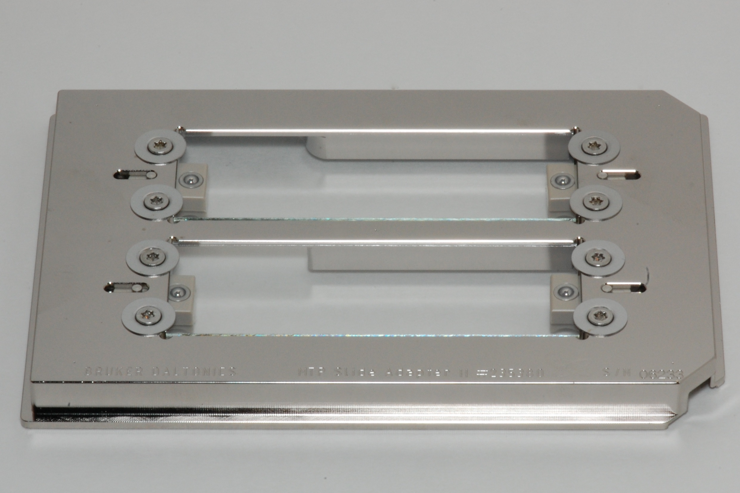 Target for MALDI mass spectrometry imaging loaded with two conductive surface microscope slides.